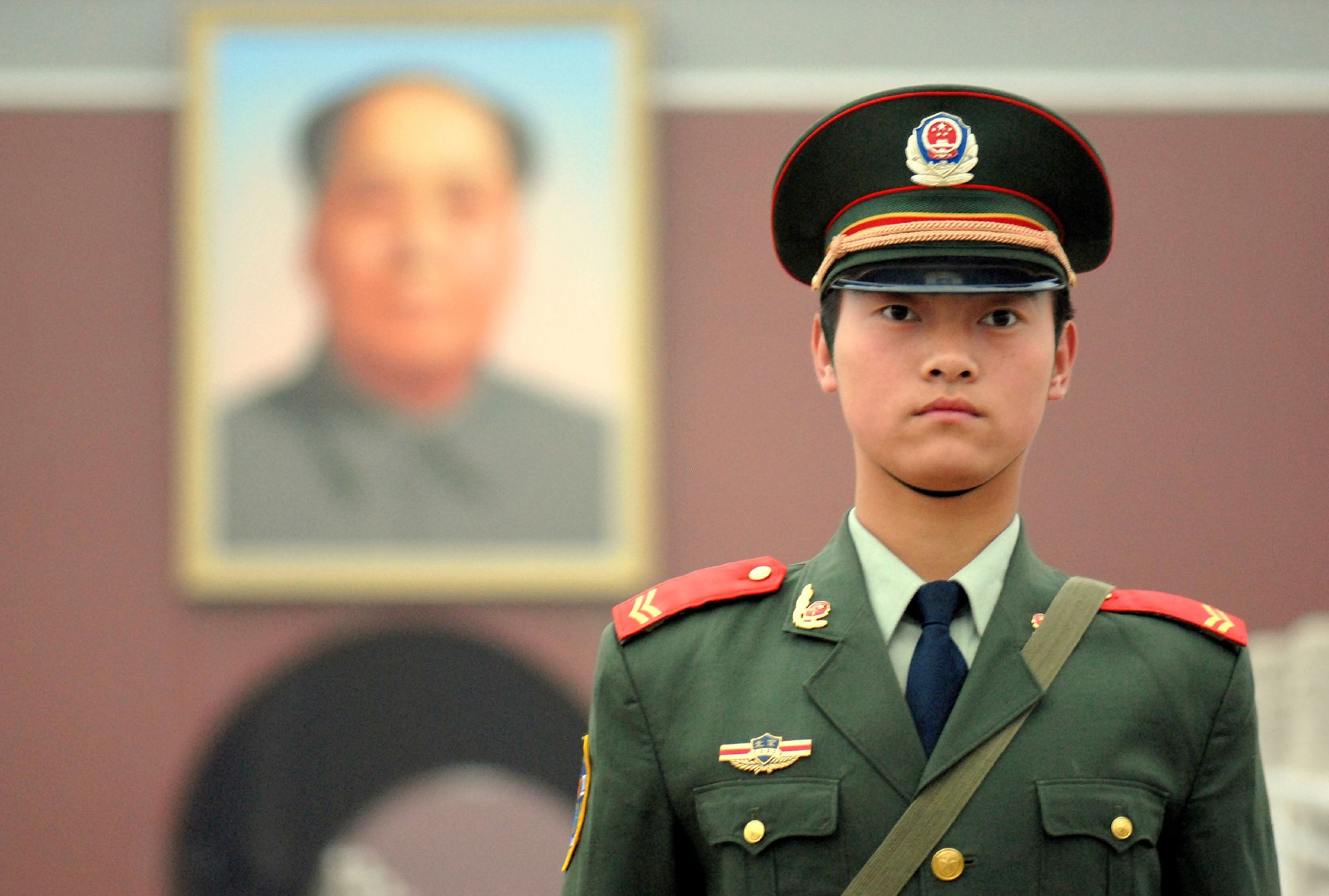 A Chinese People's Armed Police guard on Tiananmen Square, in front of the portrait of Mao Zedong. His rank is the second lowest, Private First Class [1]